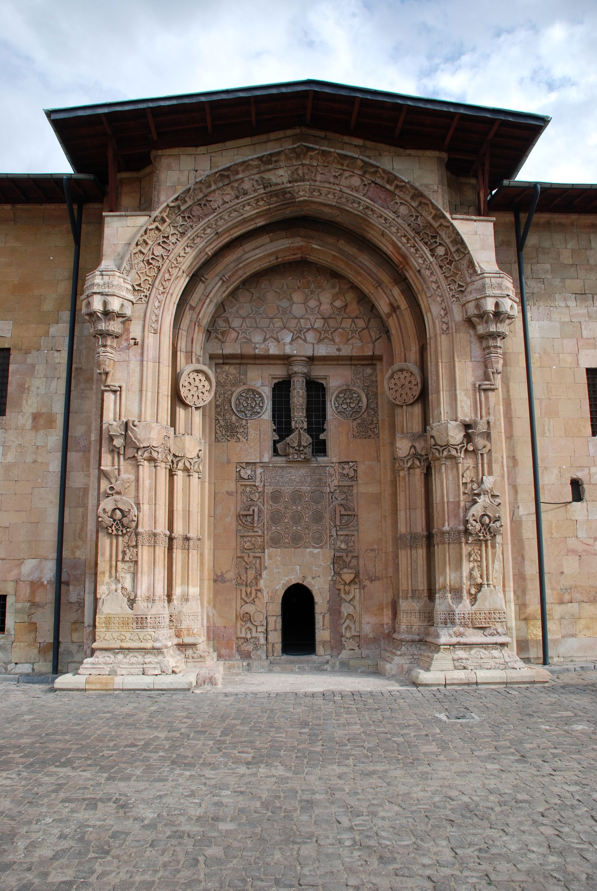 Divriği, Hospital